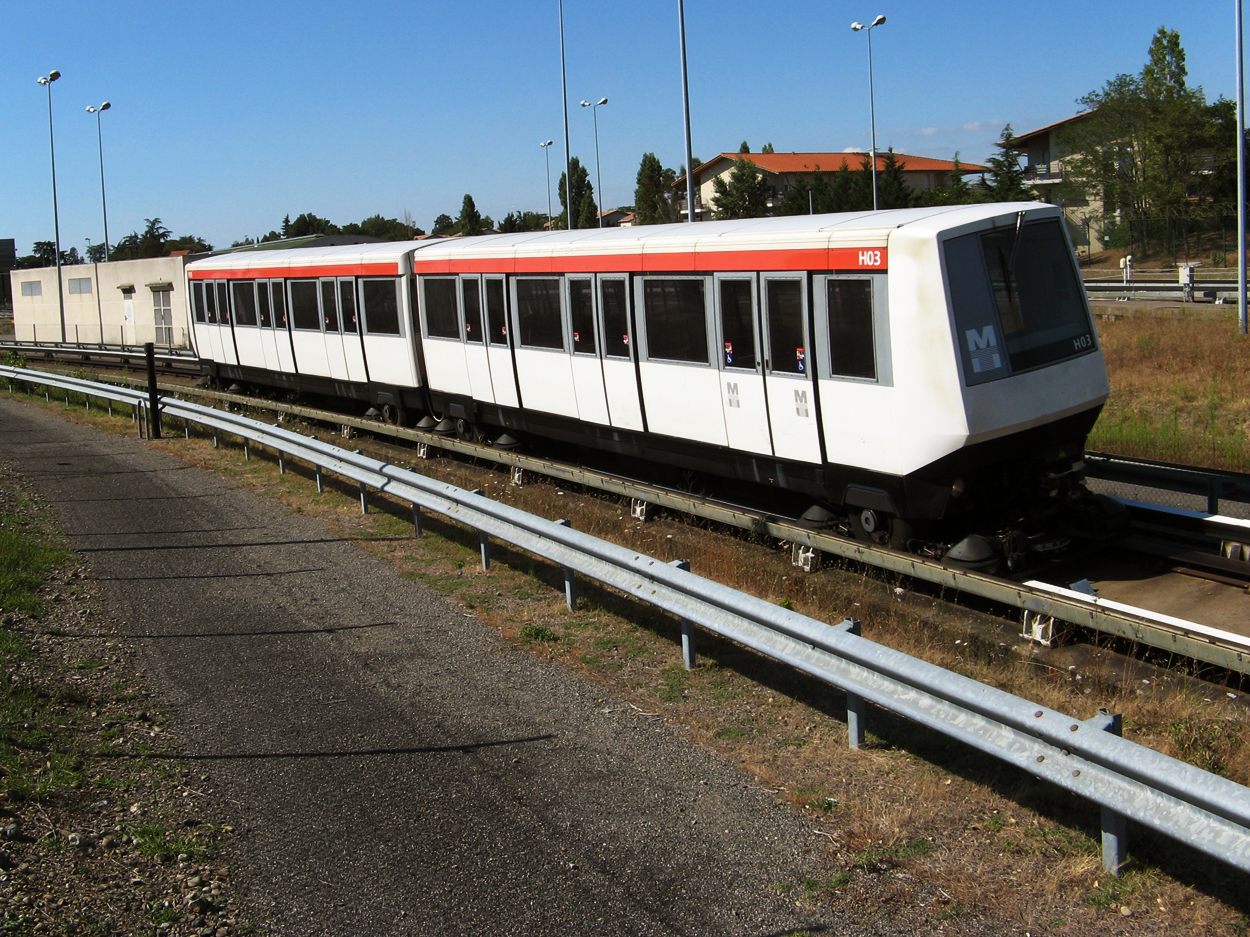 VAL 206 in the test section of the Toulouse Metro